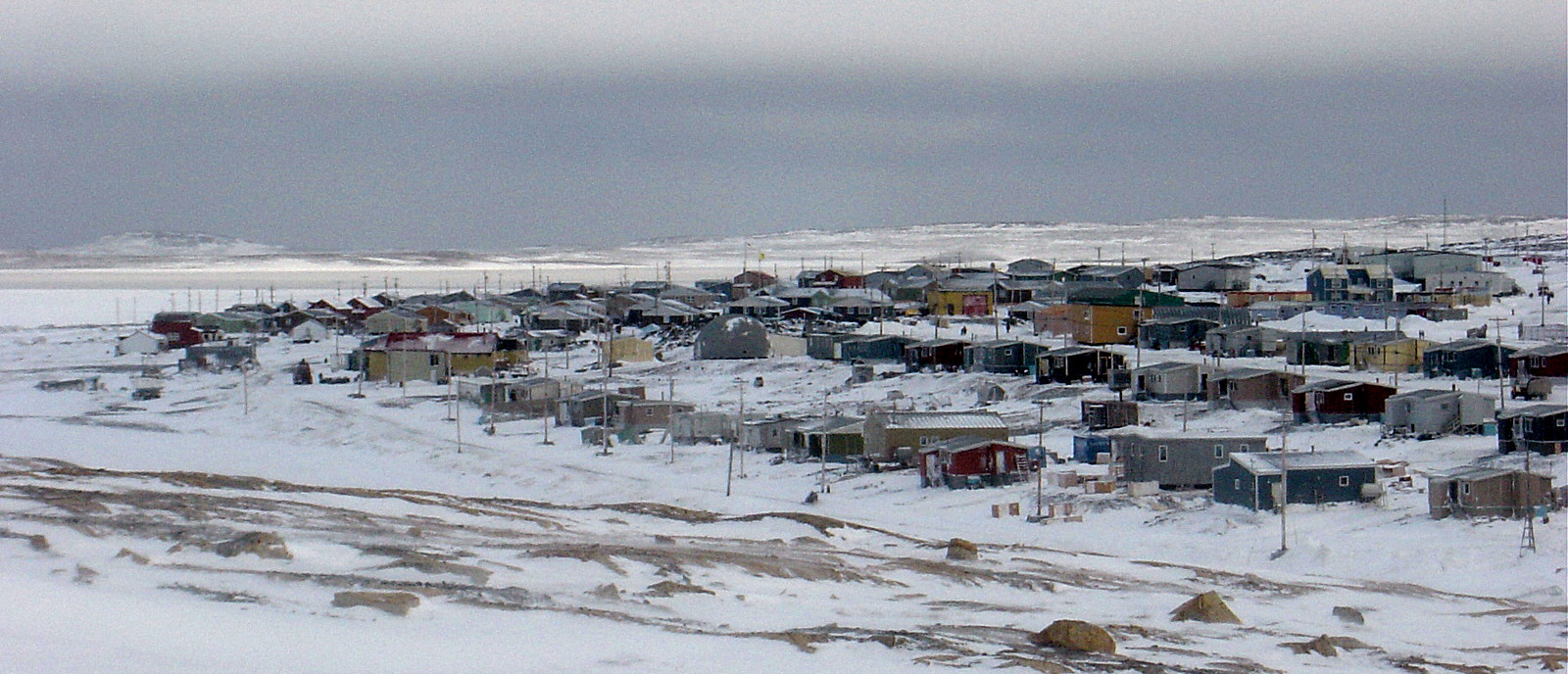 Sanikiluaq, Nunavut, Canada